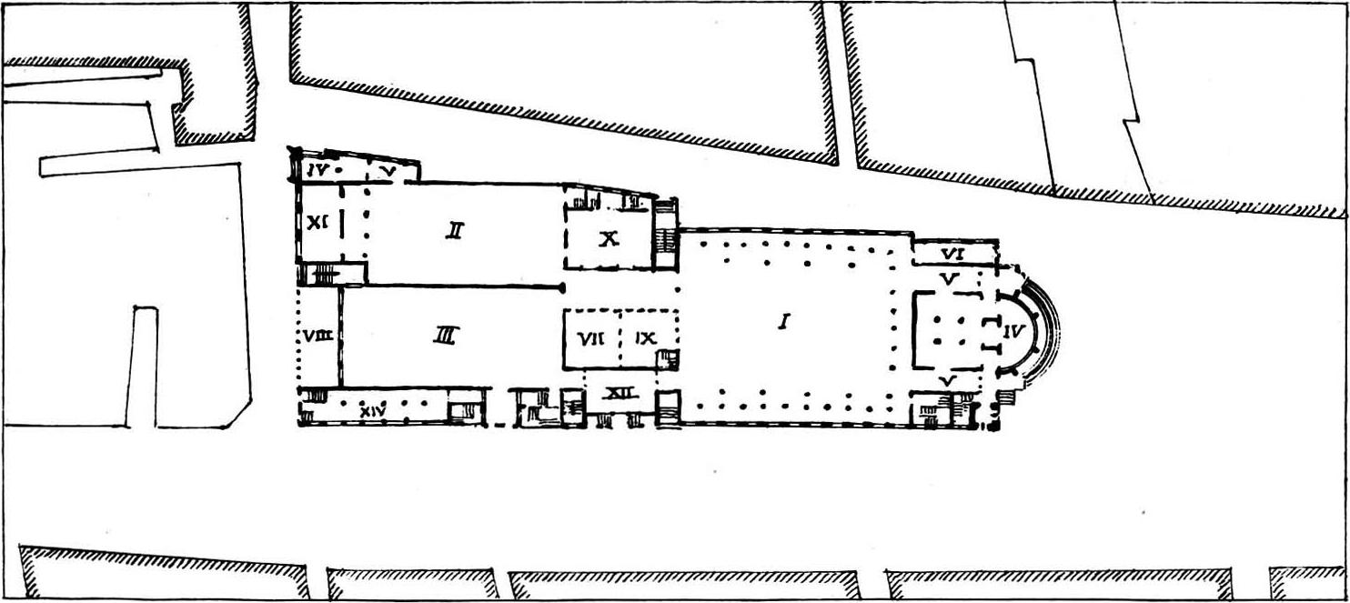 H.P. Berlage. Design for a commodity exchange, Amsterdam, plan. 1896.